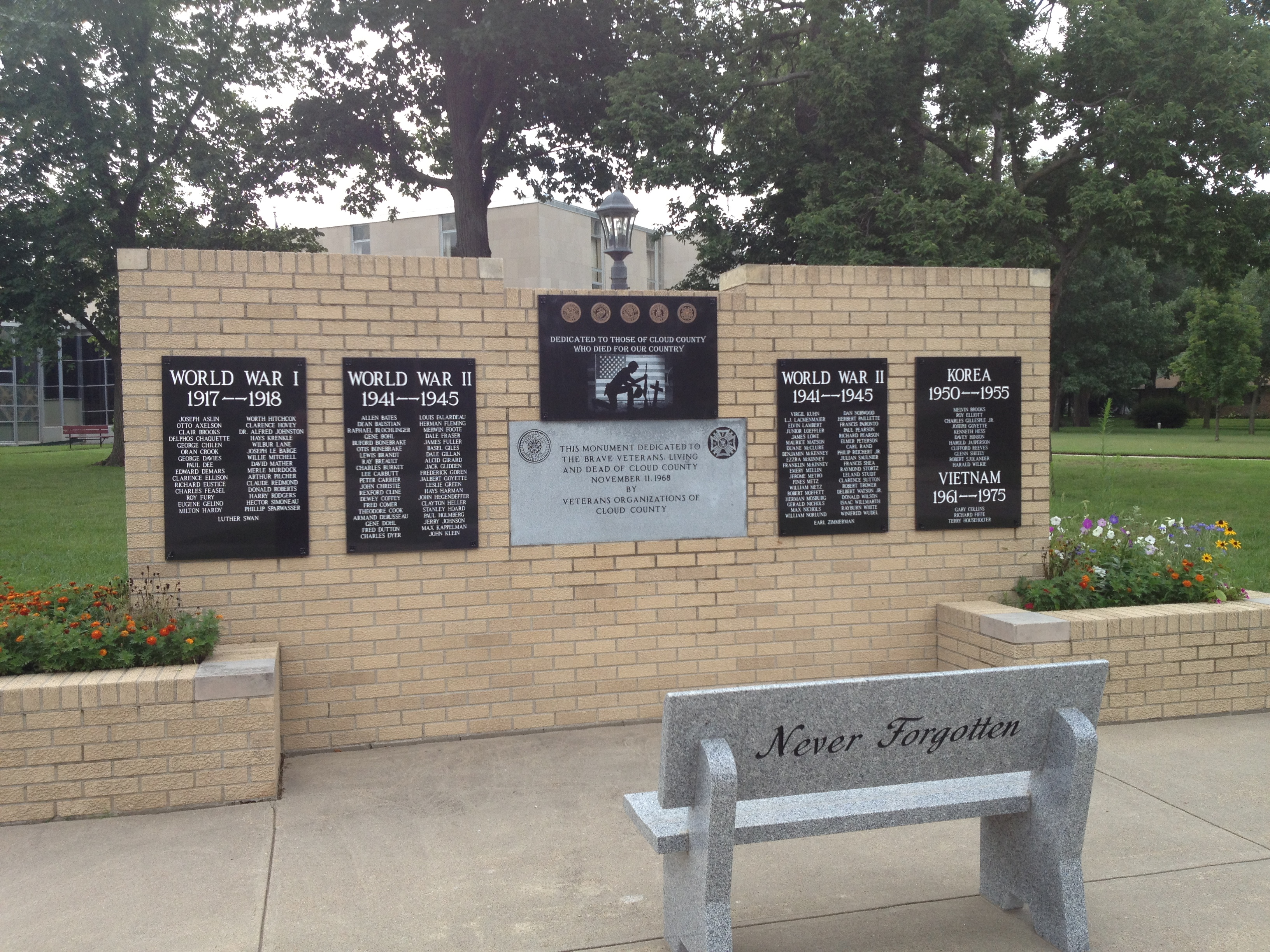 Cloud County Veterans War Memorial full view (2013)